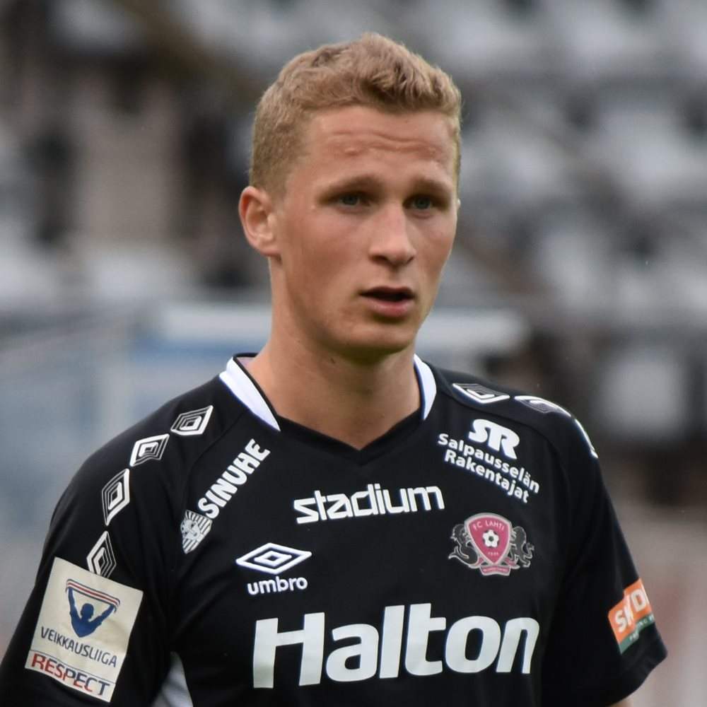 Football player Santeri Hostikka (FC Lahti)